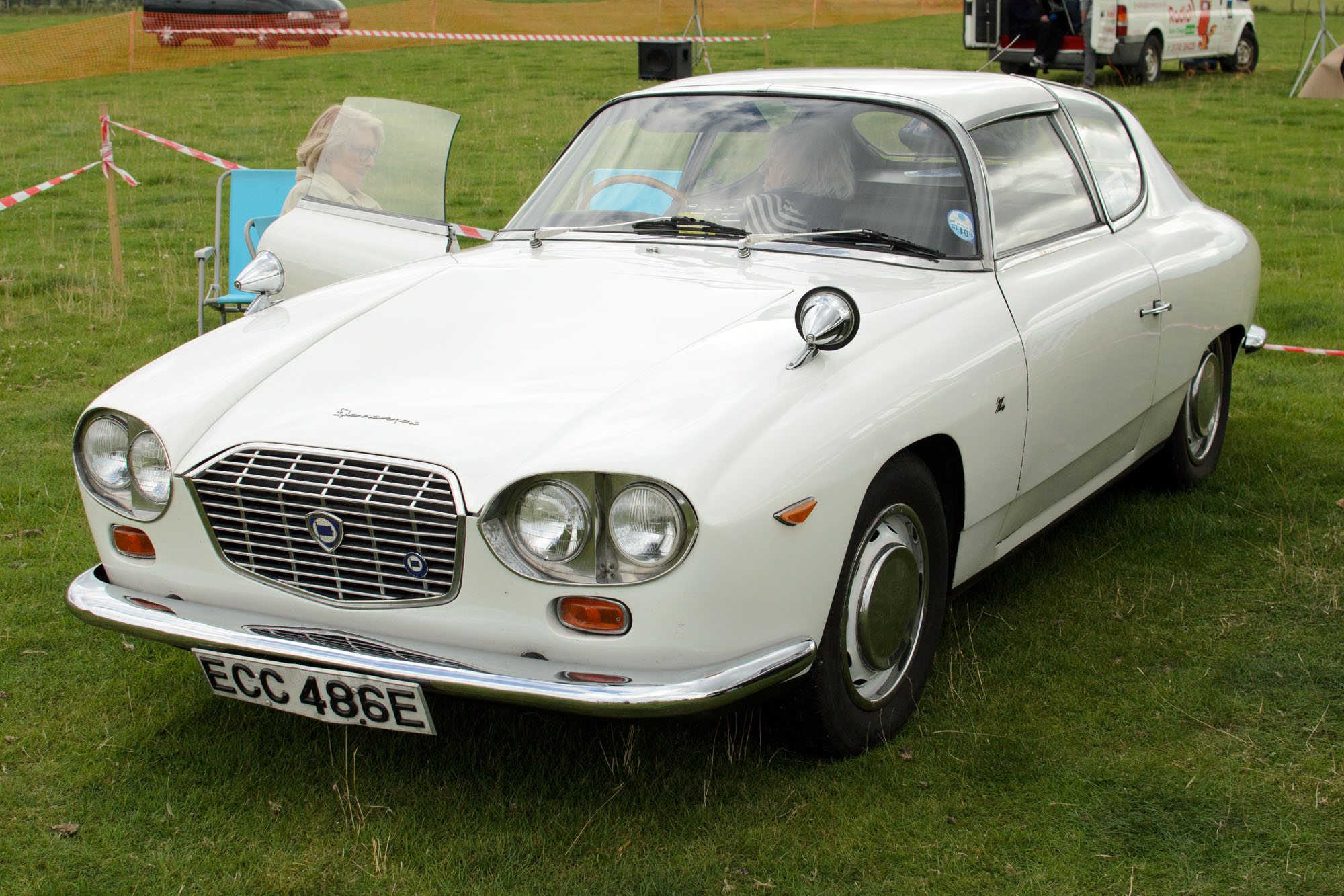 St Asaph Classic Car Show 31/08/2015